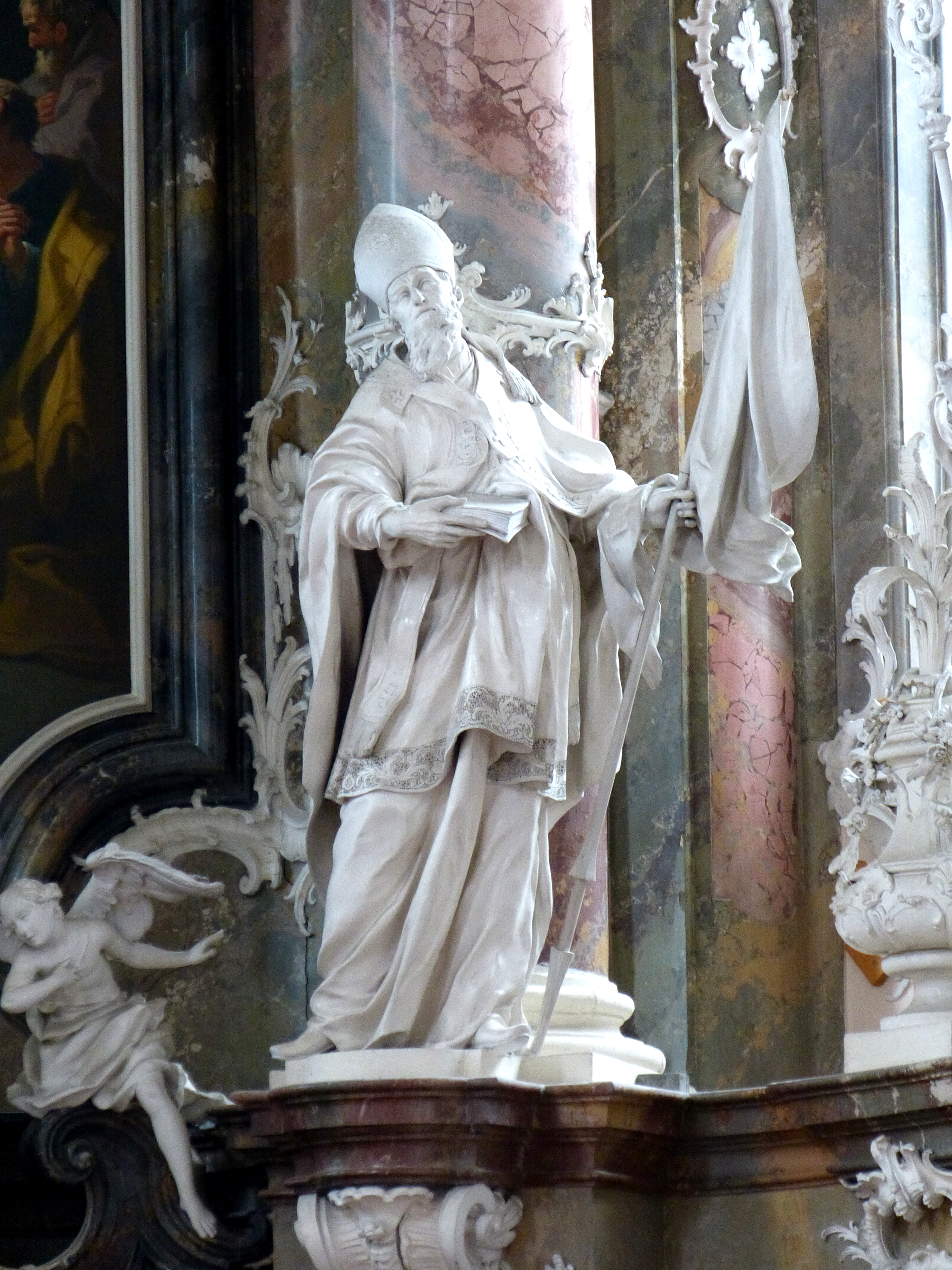 Engelhartszell ( Upper Austria ). Engelszell monastery church ( 1754-64 ) - High altar: Statue of bishop Reginbert of Passau holding the flag of the Second Crusade, by Johann Georg Üblhör.